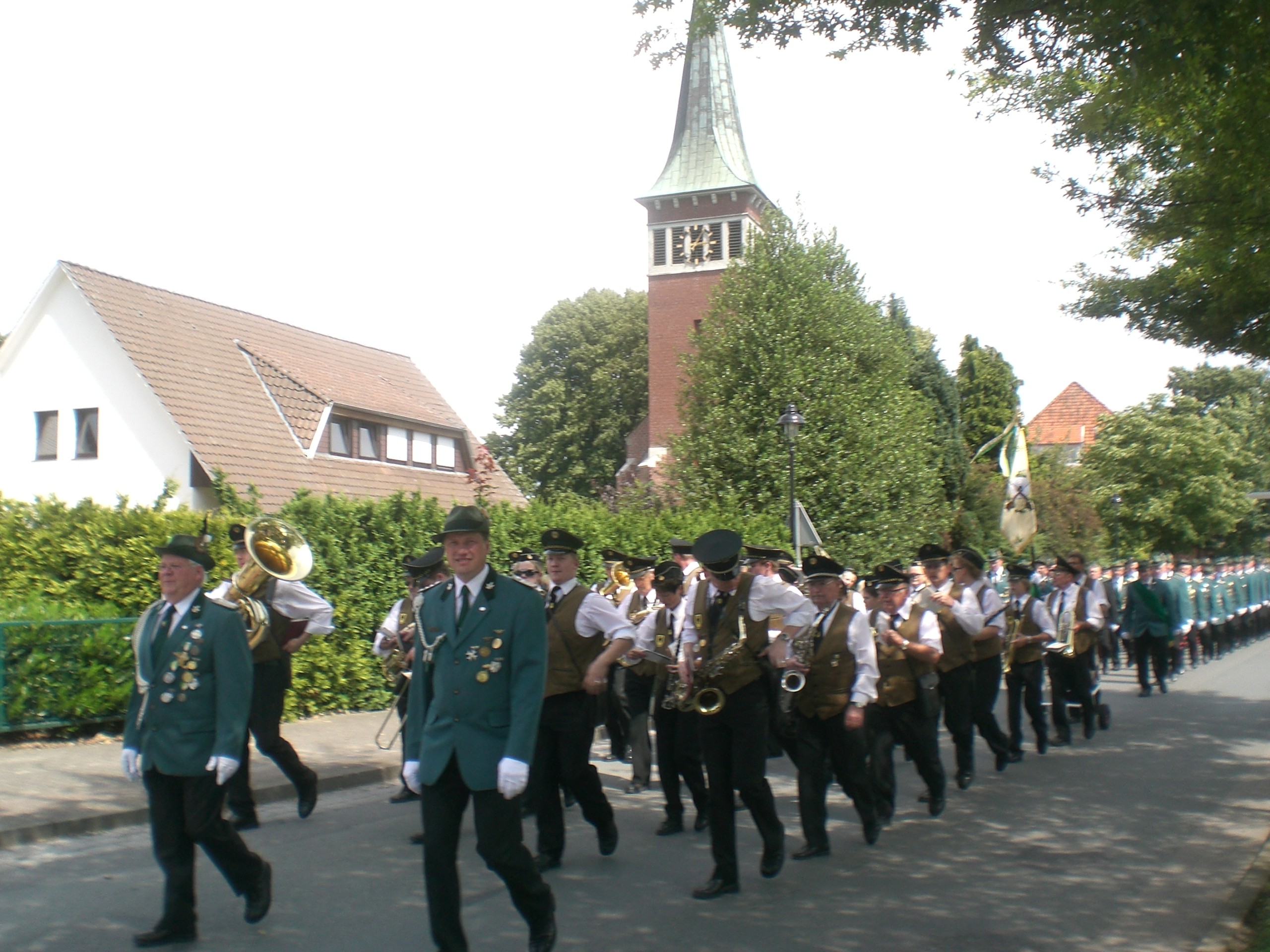 marksmen's festival in Rüschendorf, Damme, Lower Saxony, Germany